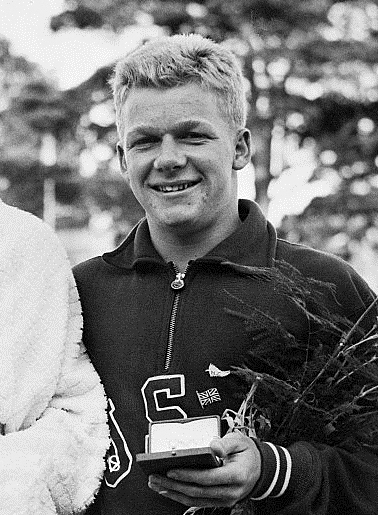 1952 Press Photo David Browning, Miller Anderson, Bobby Clothworthy Olympic Wins